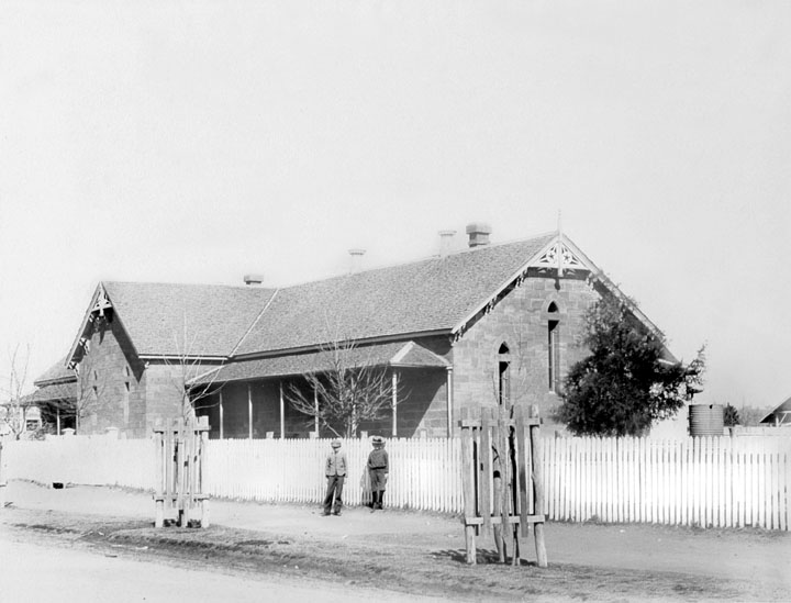 State School, Warwick. (Alternative name is Warwick Central State School, Corner Guy and Percy Streets, Warwick.)